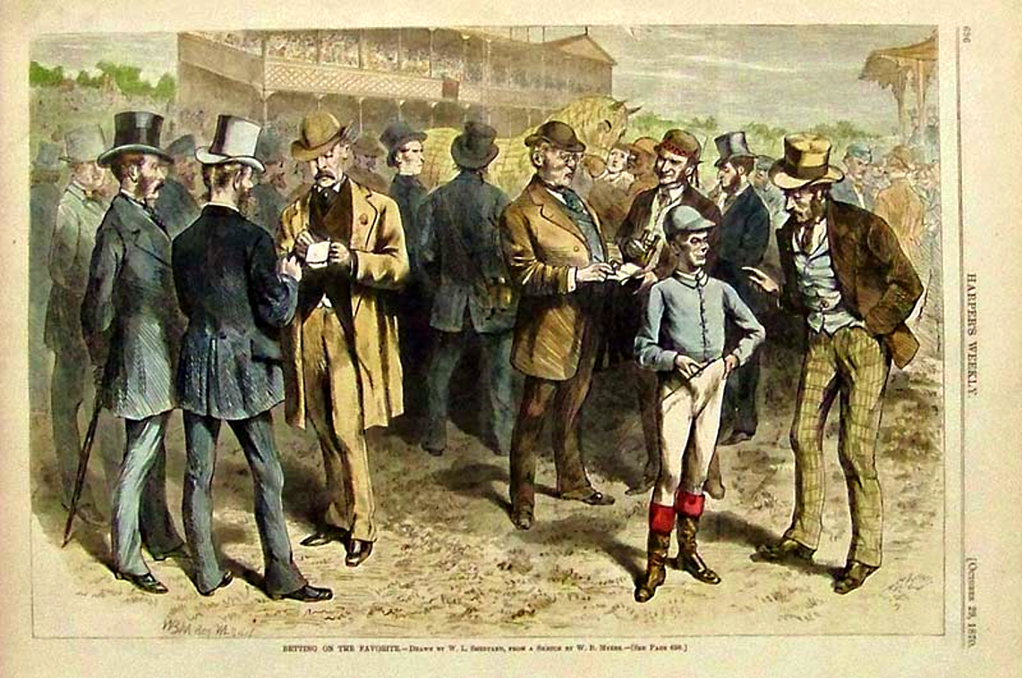 Betting on the Favorite, a wood engraving drawn by W. L. Sheppard (from a sketch by W. B. Myers) and published in Harper's Weekly, October 1870.